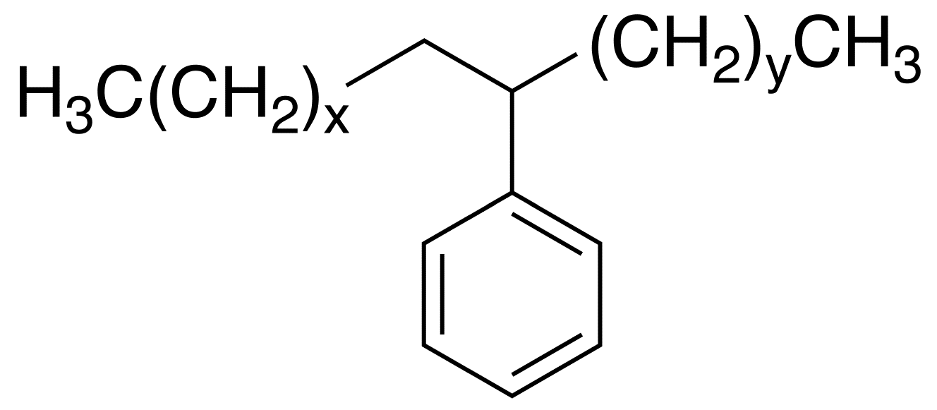 Skeletal structure of a generic linear alkylbenzene